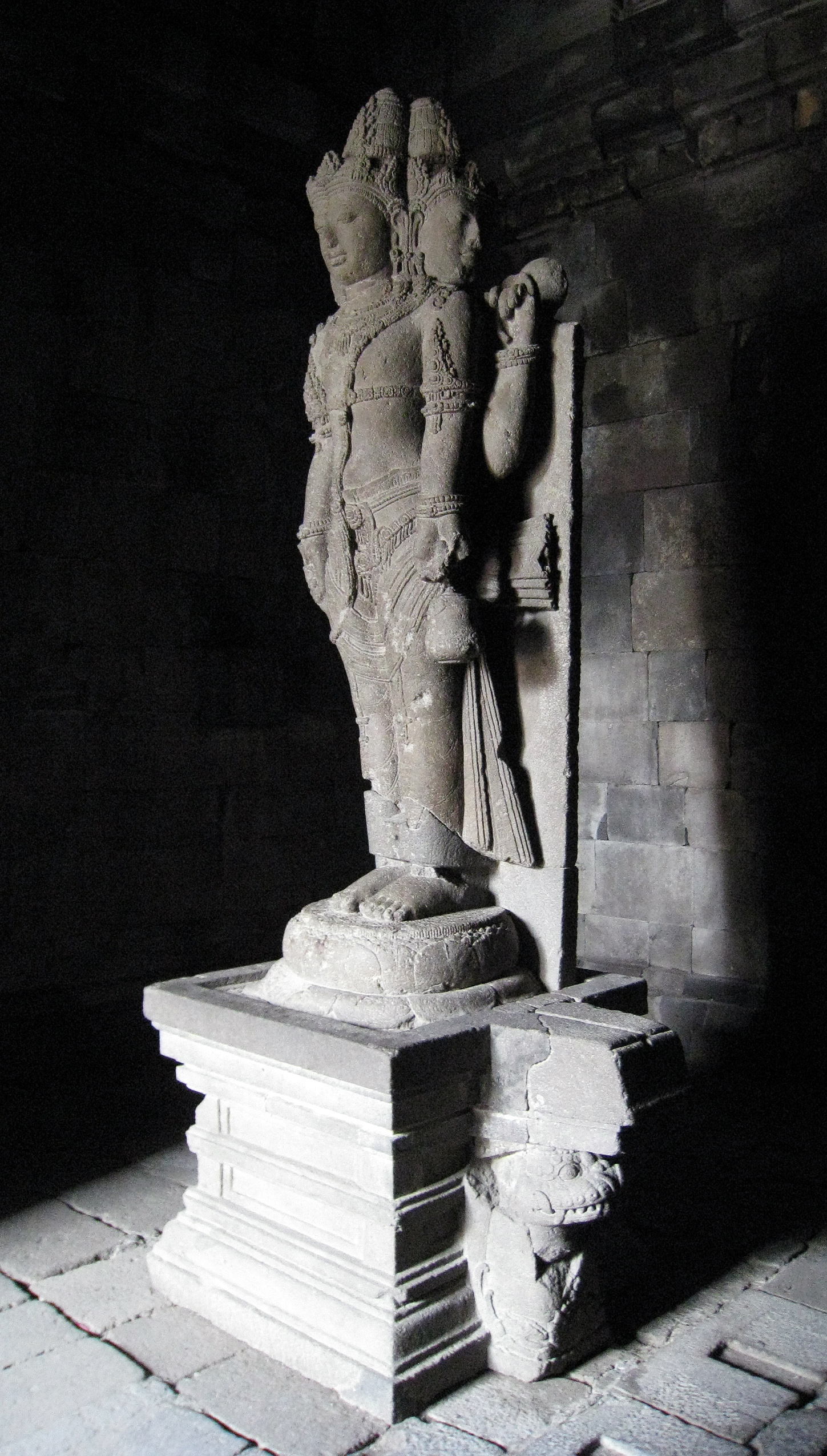 The large four faced stone statue of Hindu creator god Brahma in the garbhagriha (main chamber) of Brahma temple, Trimurti Prambanan temple, Yogyakarta, Indonesia.